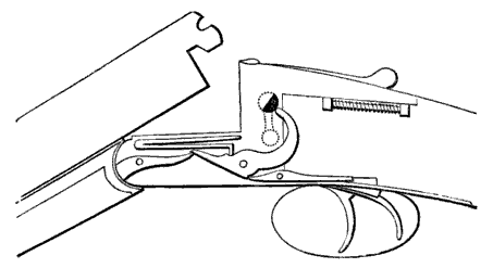 Taken from Google's digitization of